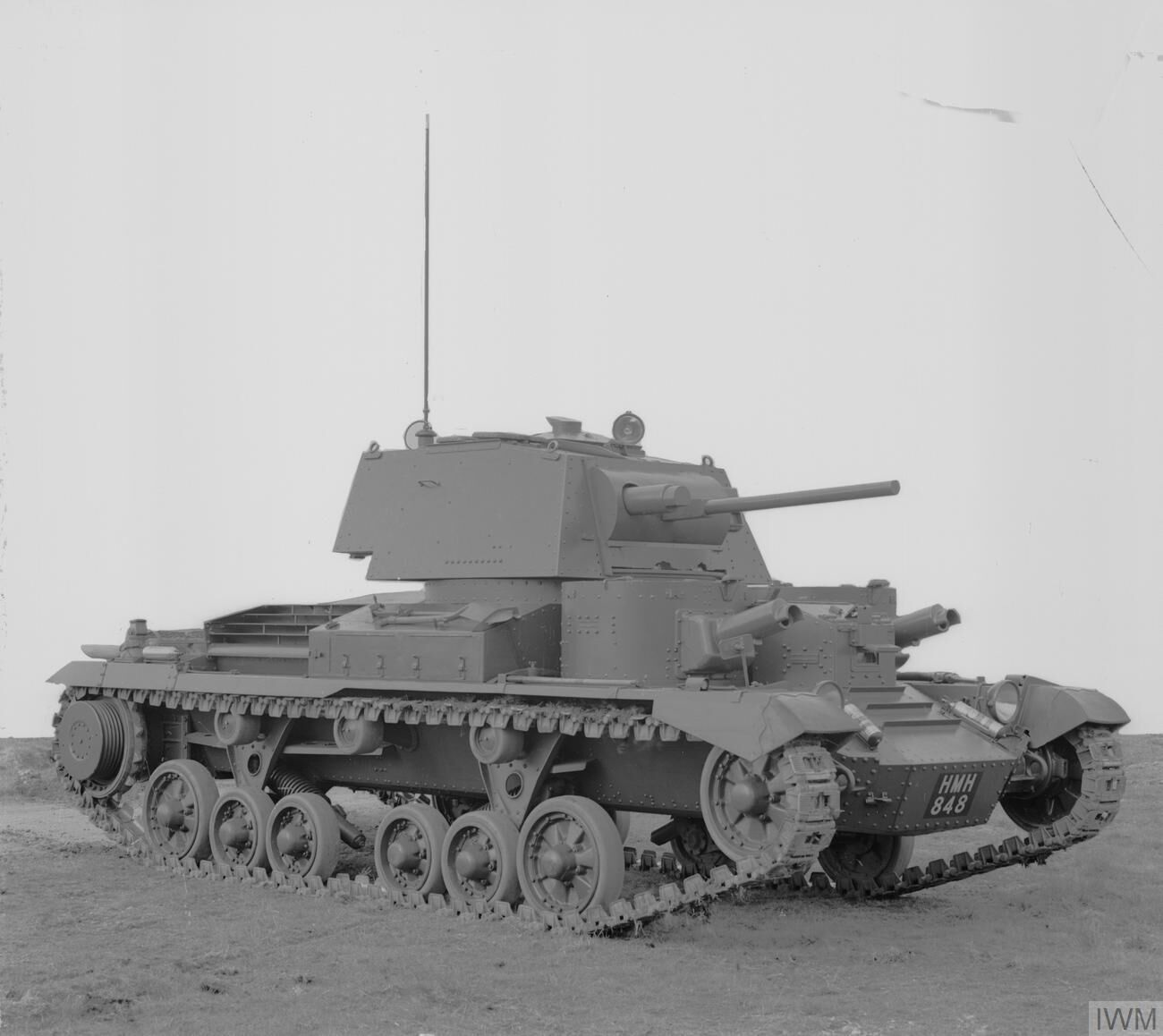 British Cruiser Mark I tank